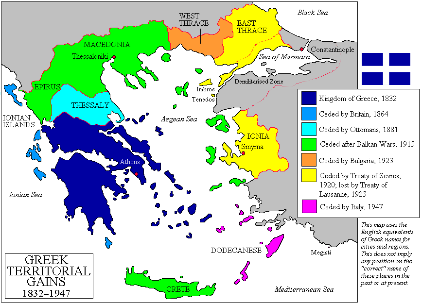 Territorial expansion of Greece (1832–1947), based on maps in Clogg, Richard (1979) A Short History of Modern Greece, Cambridge University Press, frontispiece and Woodhouse, C. M. (1968) The Story of Modern Greece, Faber and Faber, page 174.